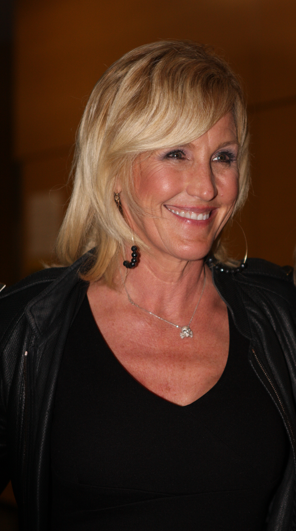 Erin Brockovich Legal Eagle And Environmentalist Speaks At University of Sydney